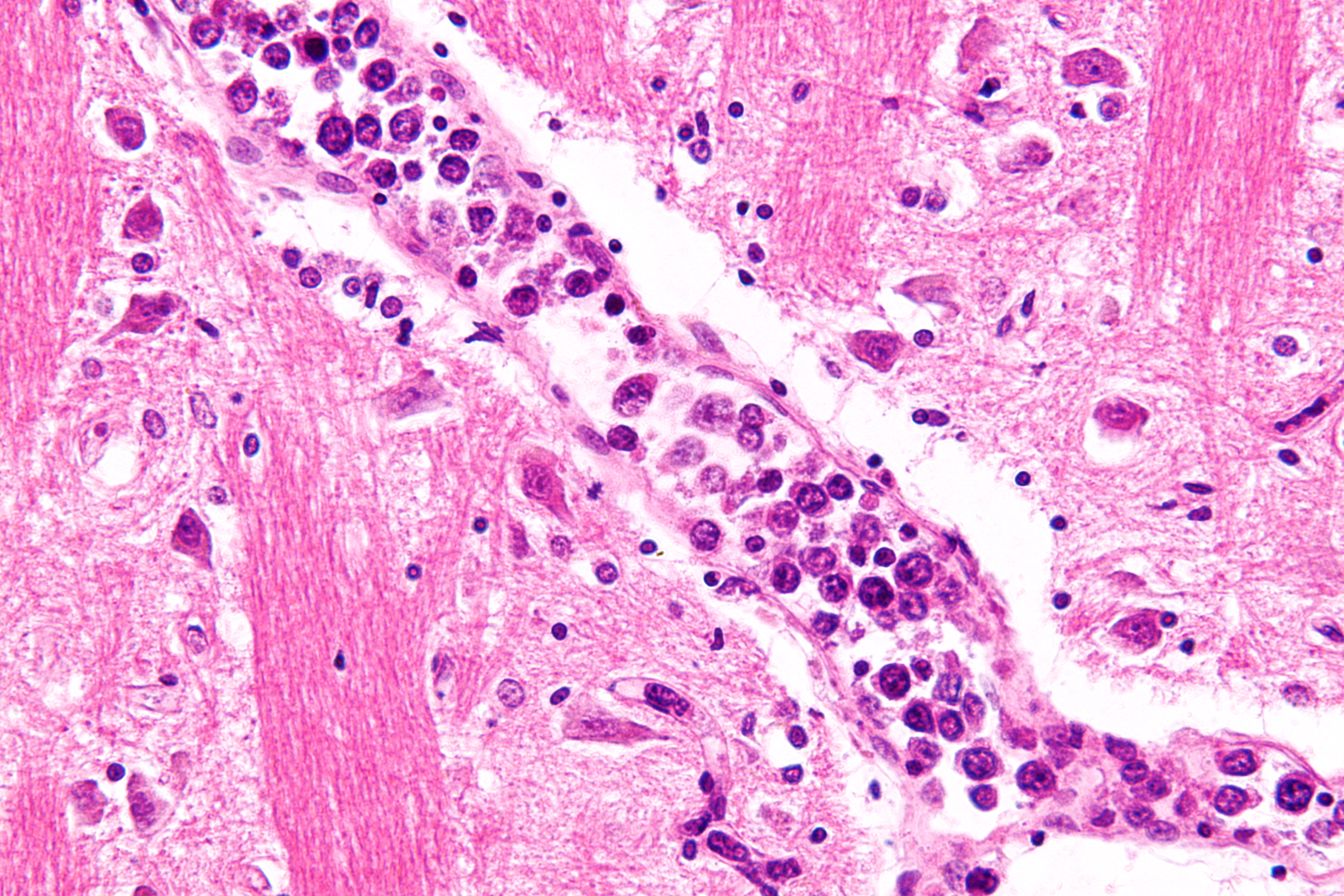 Very high magnification micrograph of an intravascular lymphoma in blood vessels of the pons. H&E stain. Intravascular lymphomas are a type of large cell lymphoma. Immunostains showed that this lymphoma was of a B-cell lineage; thus, it is, more precisely, an intravascular large B-cell lymphoma. Related images Low mag. Intermed. mag. High mag.